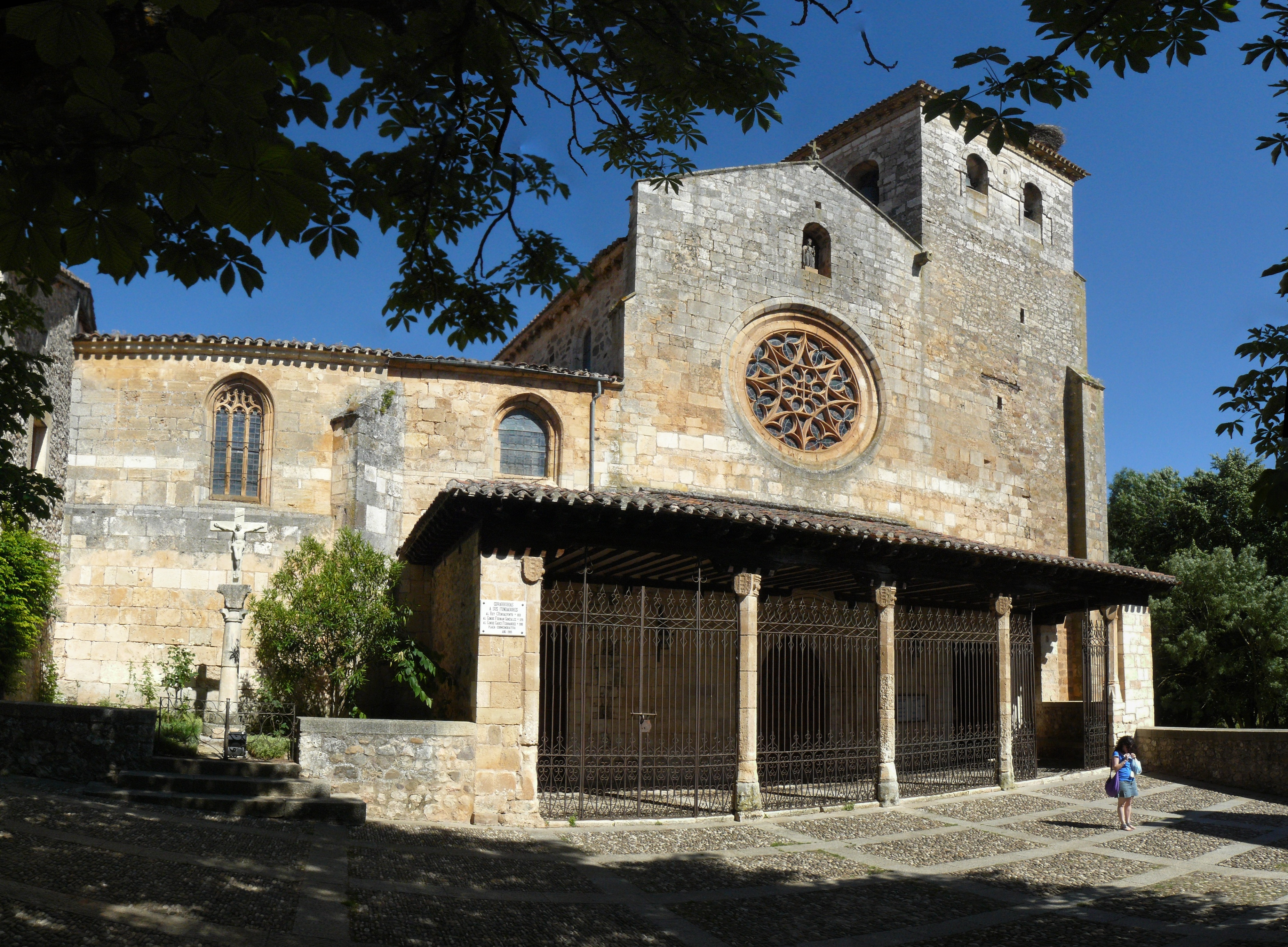 Collegiate church of San Cosme and San Damian, Covarrubias, Burgos (Spain)